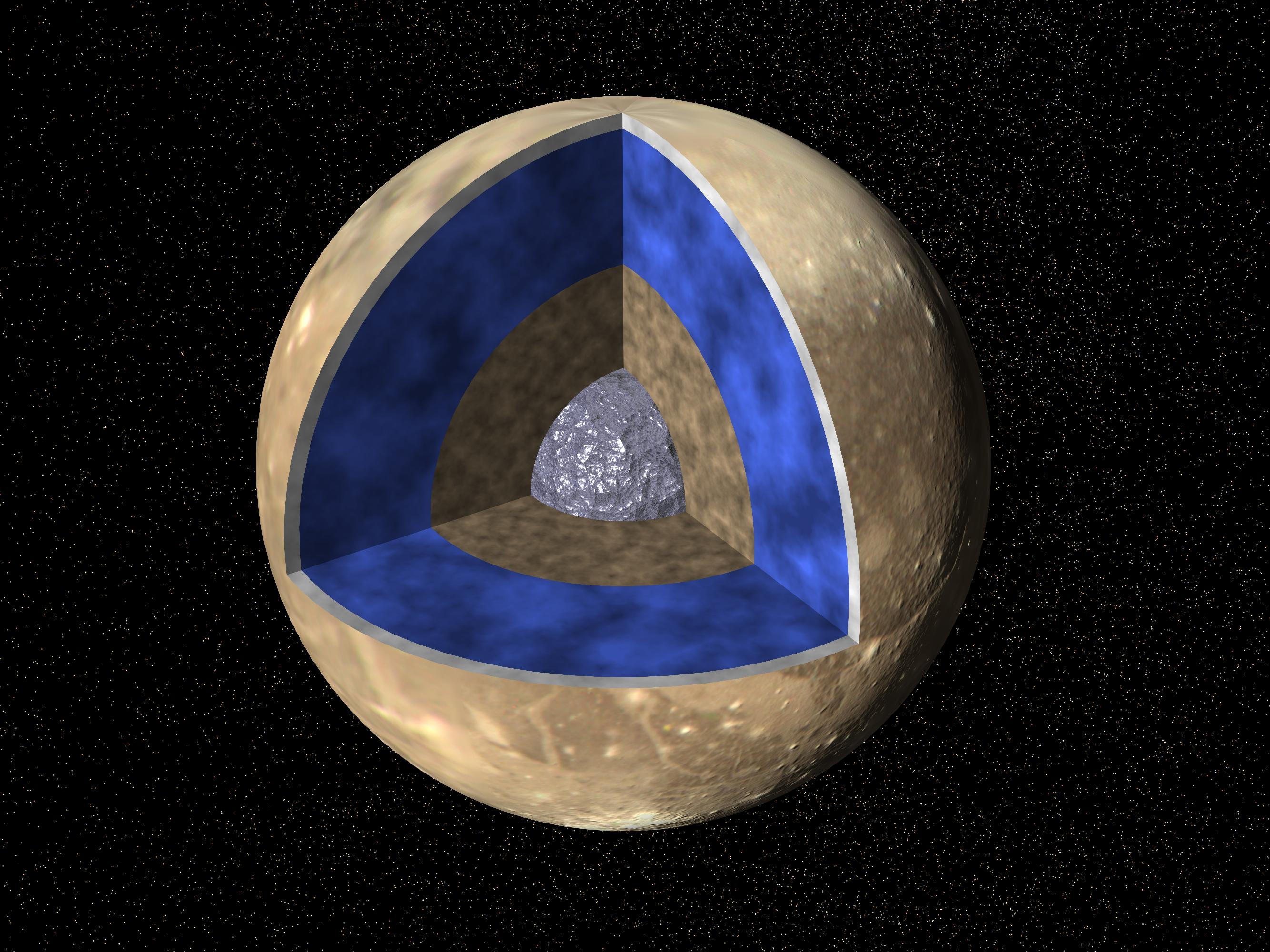 Interior of Ganymede: Voyager images are used to create a global view of Ganymede. The cut-out reveals the interior structure of this icy moon. This structure consists of four layers based on measurements of Ganymede's gravity field and theoretical analyses using Ganymede's known mass, size and density. Ganymede's surface is rich in water ice and Voyager and Galileo images show features which are evidence of geological and tectonic disruption of the surface in the past. As with the Earth, these geological features reflect forces and processes deep within Ganymede's interior. Based on geochemical and geophysical models, scientists expected Ganymede's interior to either consist of: a) an undifferentiated mixture of rock and ice or b) a differentiated structure with a large lunar sized "core" of rock and possibly iron overlain by a deep layer of warm soft ice capped by a thin cold rigid ice crust. Galileo's measurement of Ganymede's gravity field during its first and second encounters with the huge moon have basically confirmed the differentiated model and allowed scientists to estimate the size of these layers more accurately. In addition the data strongly suggest that a dense metallic core exists at the center of the rock core. This metallic core suggests a greater degree of heating at sometime in Ganymede's past than had been proposed before and may be the source of Ganymede's magnetic field discovered by Galileo's space physics experiments.